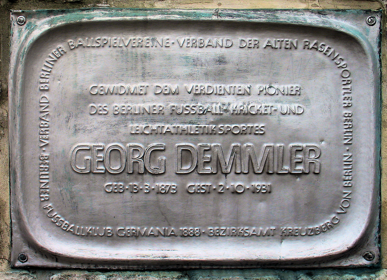 Memorial plaque, Georg Demmler, Dudenstraße 40-64, Berlin-Kreuzberg, Germany Koordinate:52°29′7″N 13°22′43″E / 52.48528°N 13.37861°E